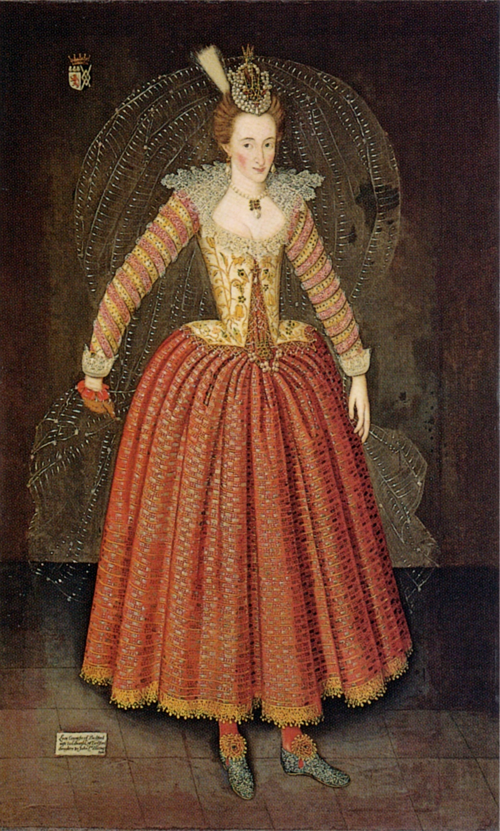 Portrait of Lucy Russell née Harington, Countess of Bedford.